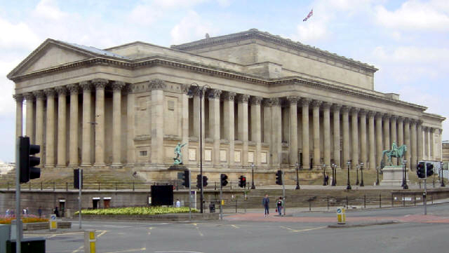 Photograph